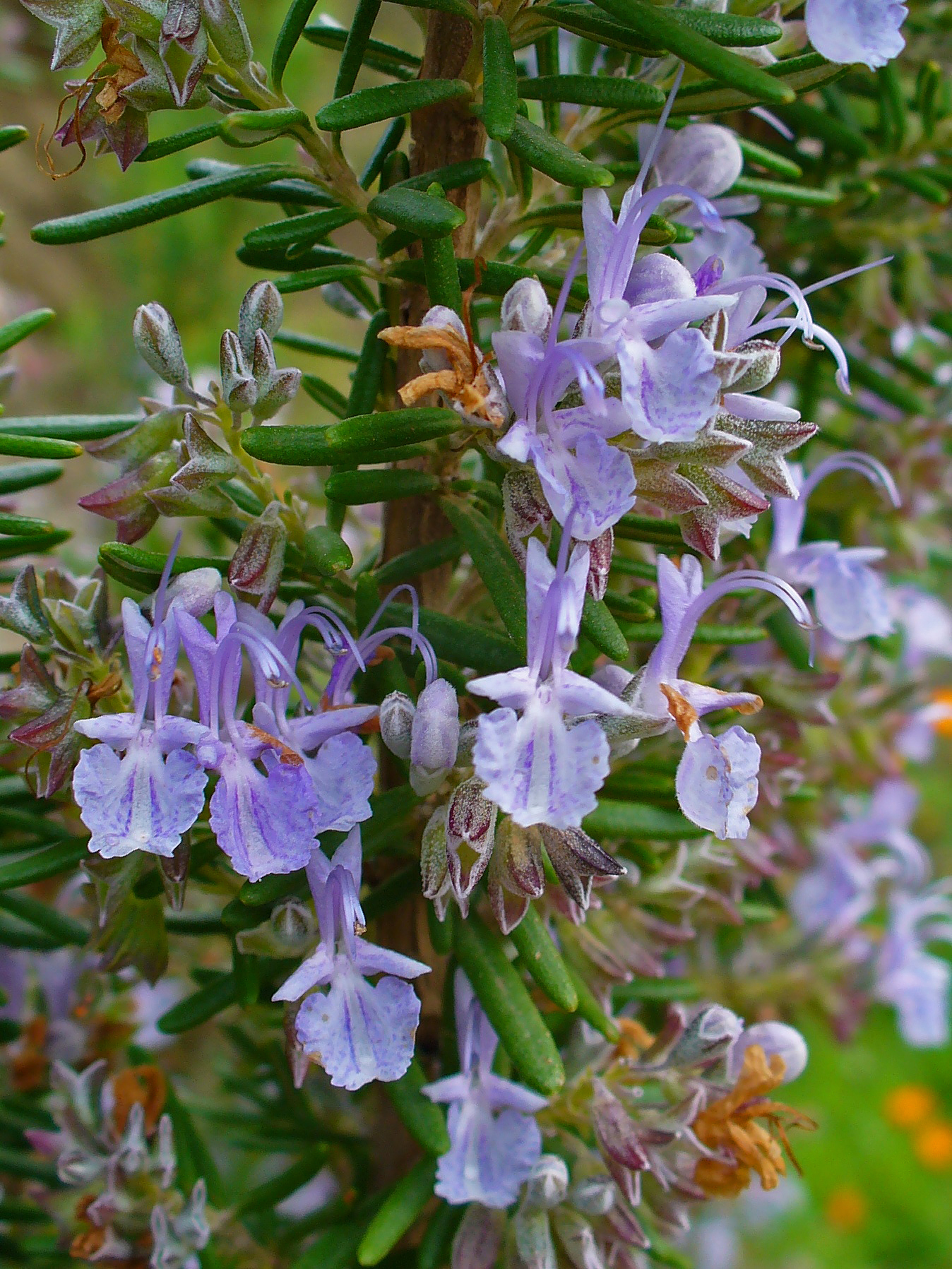 Rosmarinus officinalis, Lamiaceae, Rosemary, flowers. Lassithi, Crete, Greece.